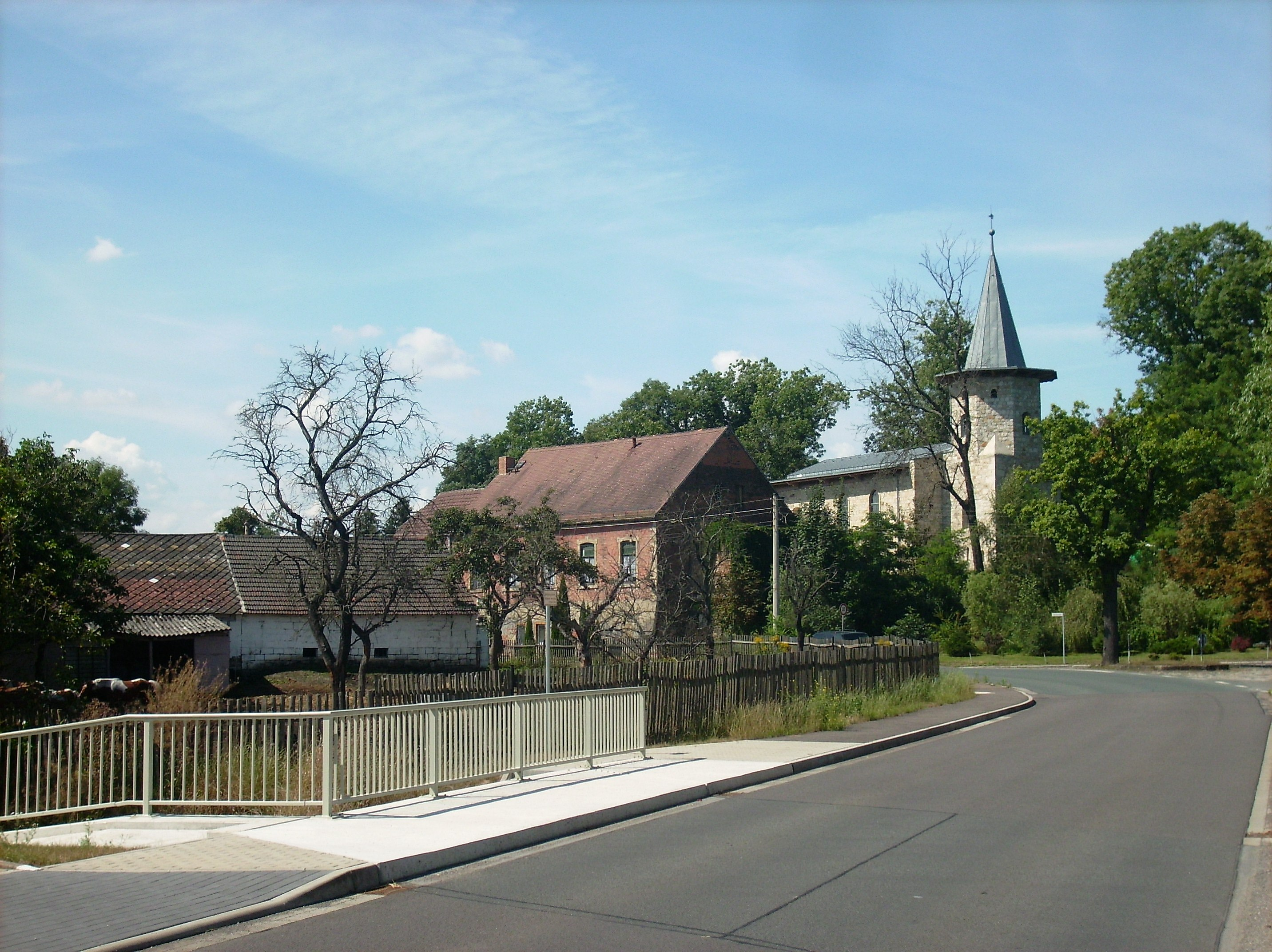 Wählitz (Hohenmölsen, district of Burgenlandkreis, Saxony-Anhalt) with church